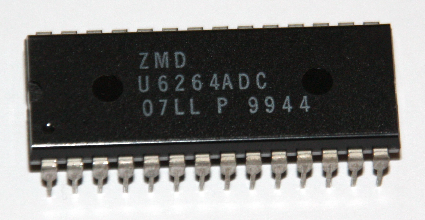 ZMD Static RAM 1999